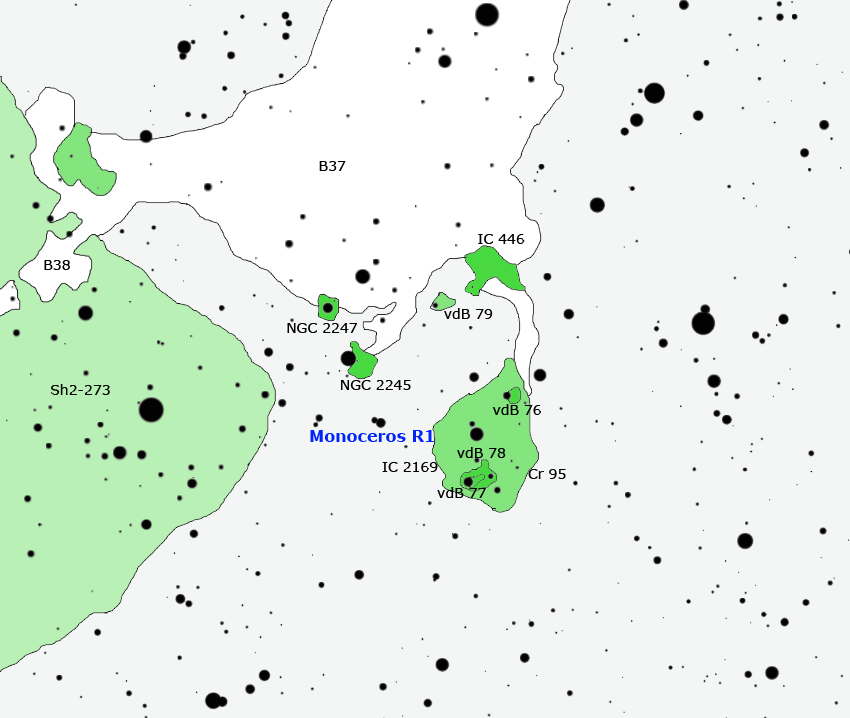 Map of Monoceros R1 molecular cloud